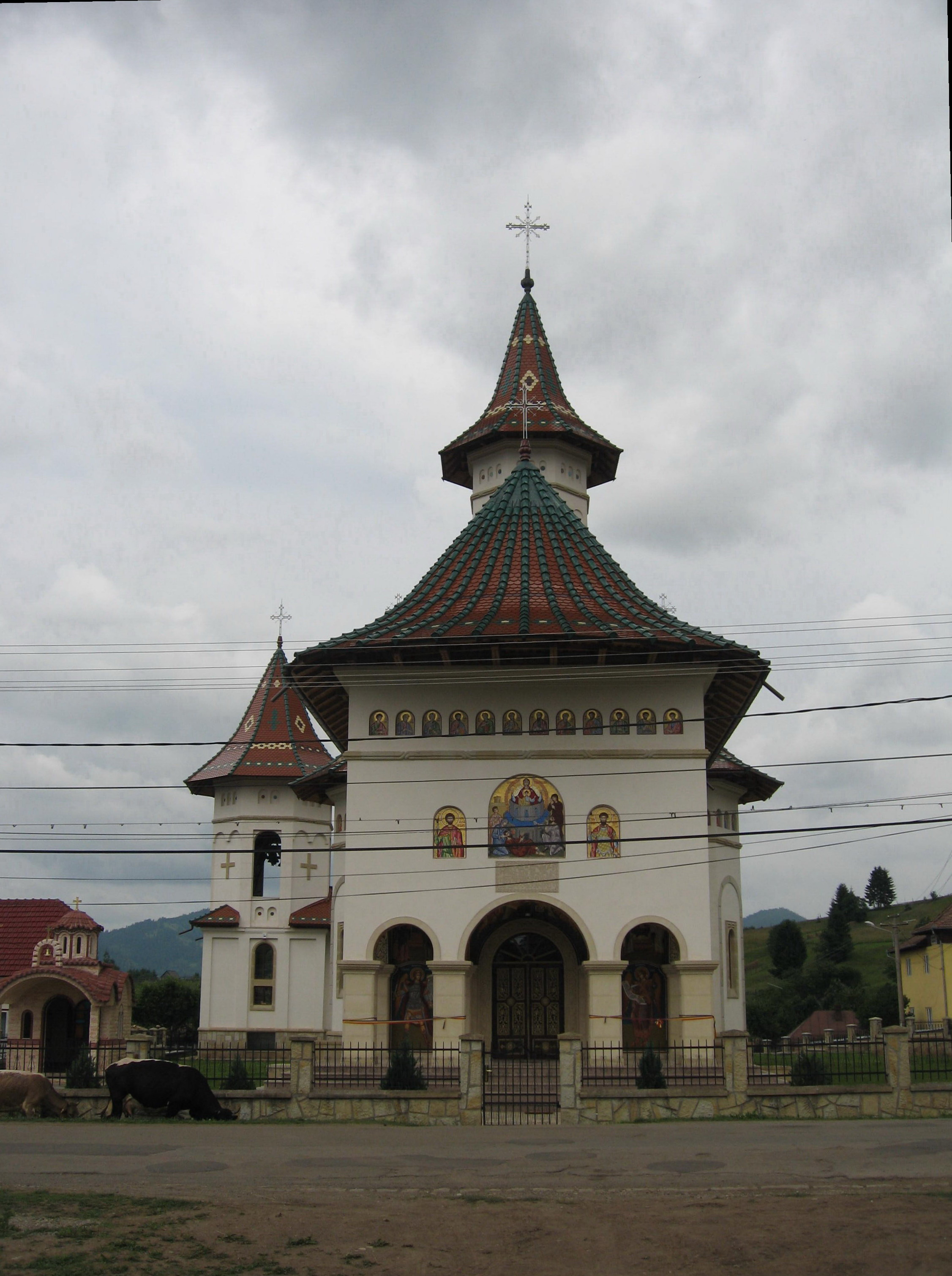 Biserica Izvorul Tămăduirii din Câmpulung Moldovenesc